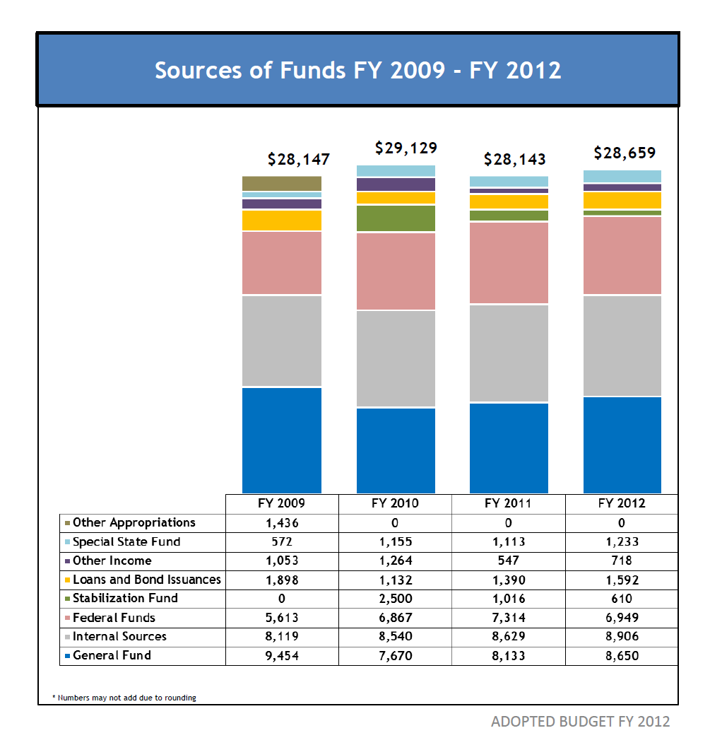 Time Series FY 2009-2012. Consolidated Budget of Puerto Rico by source.